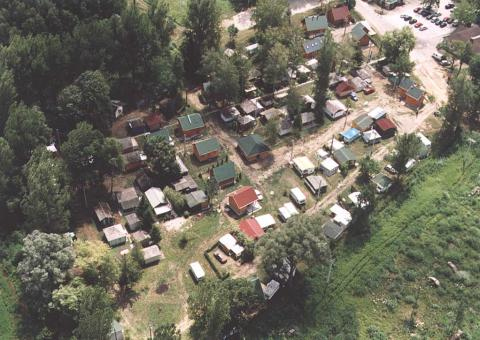 Csokonyavisonta, Hungary, aerial photography